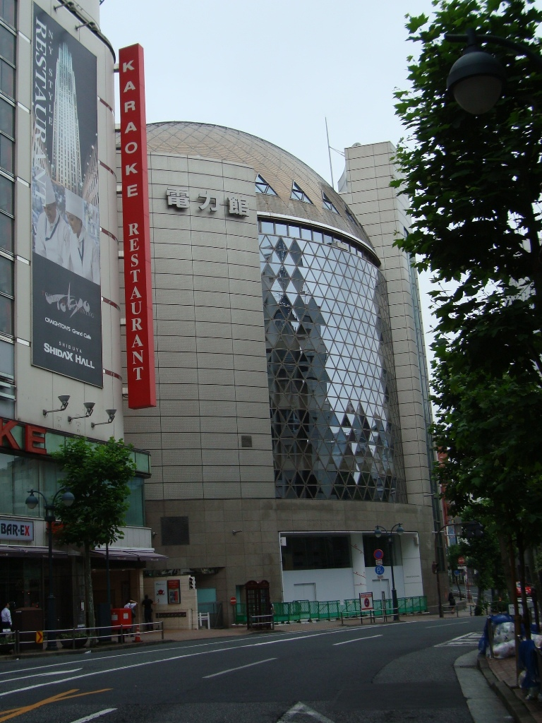 TEPCO Museum, Shibuya, Tokyo